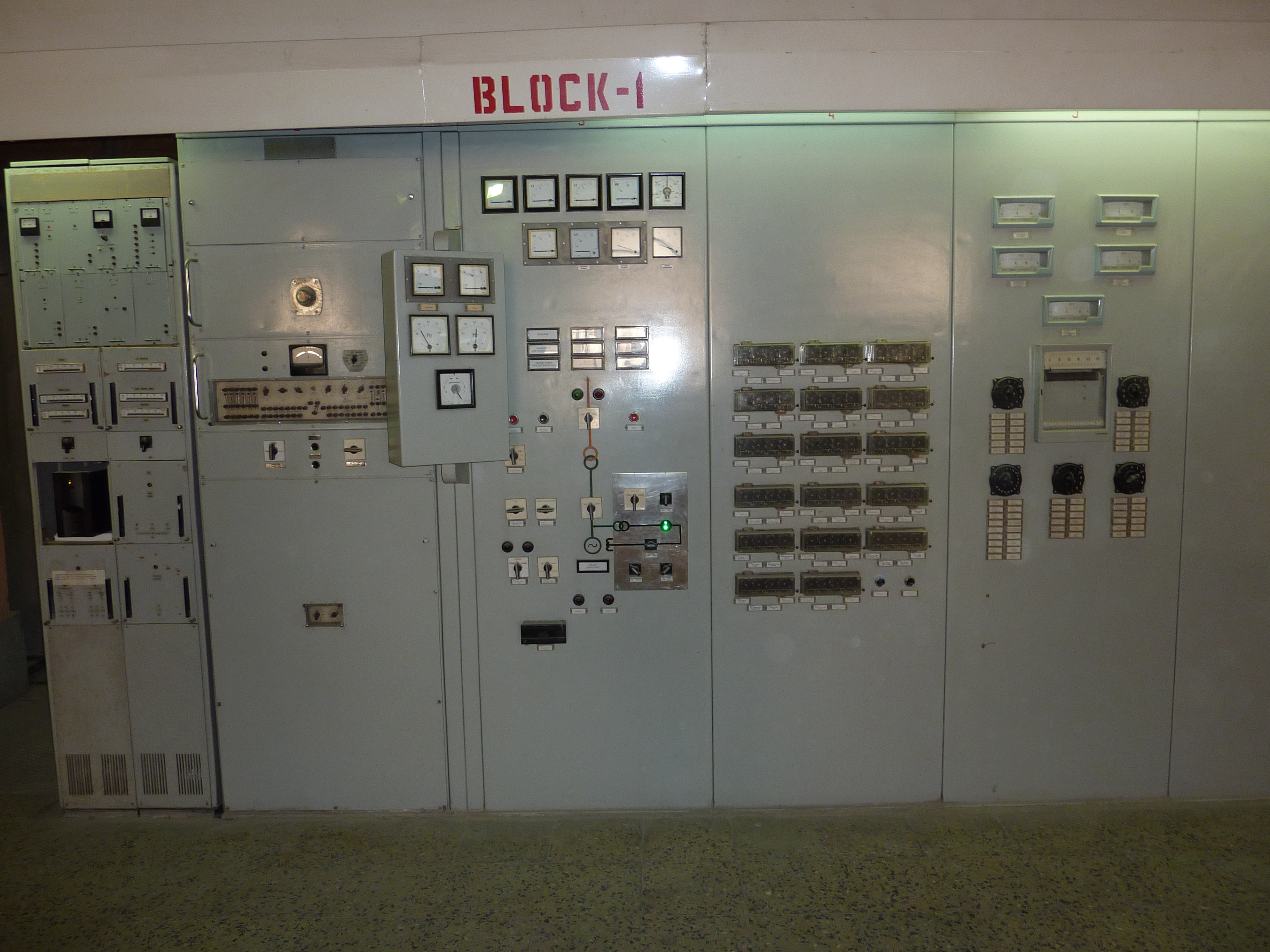 Control panel for turbine 1